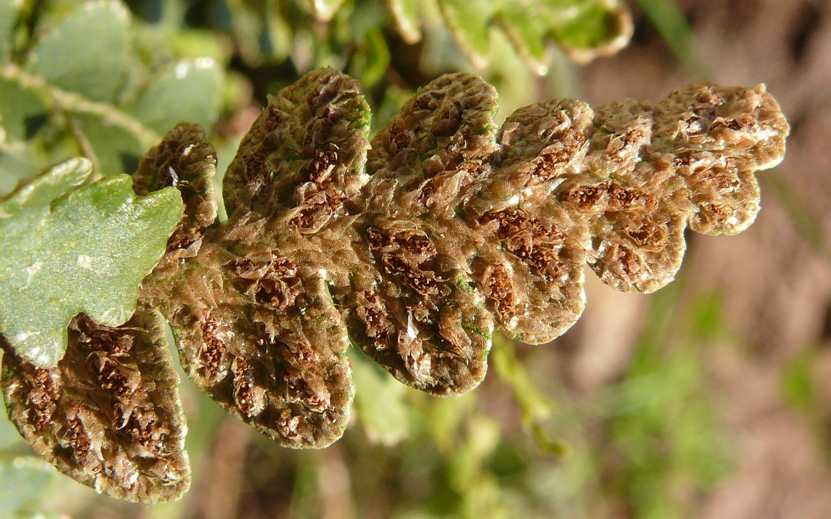 Asplenium ceterach, Spessart, Germany